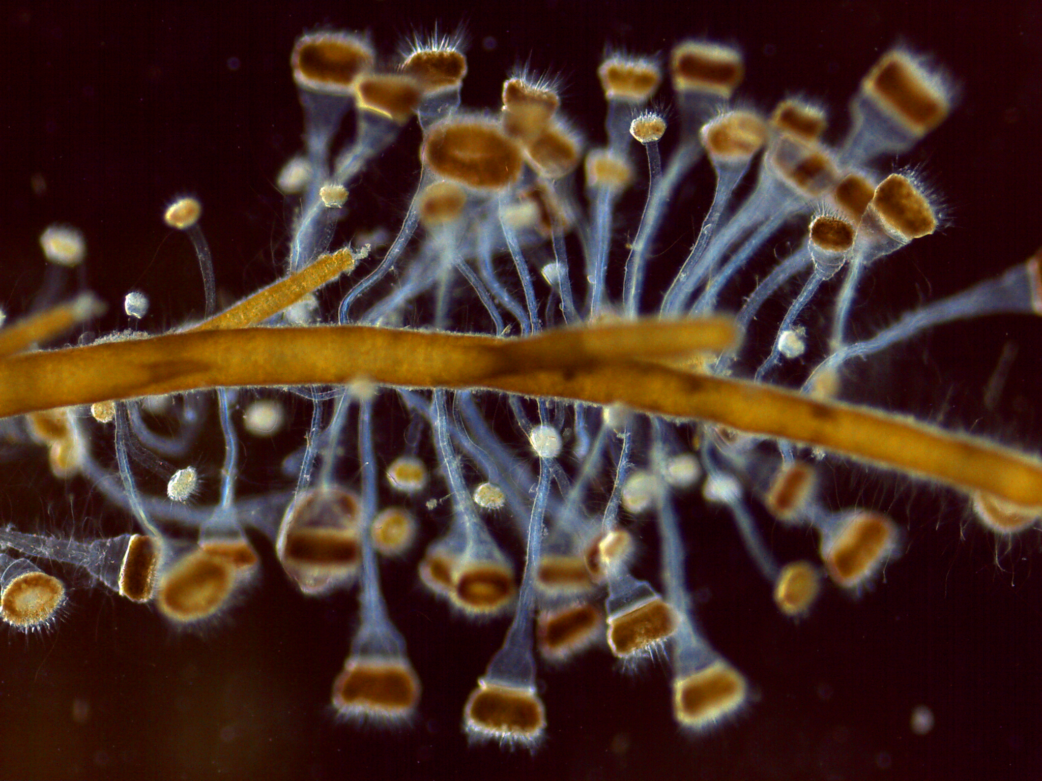 Marine ciliate protists called suctorians growing on the thalli of a filamentous algae.